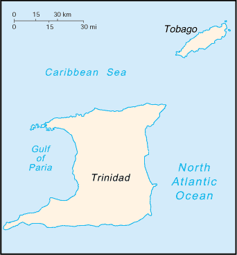 Blank map of Trinidad and Tobago.